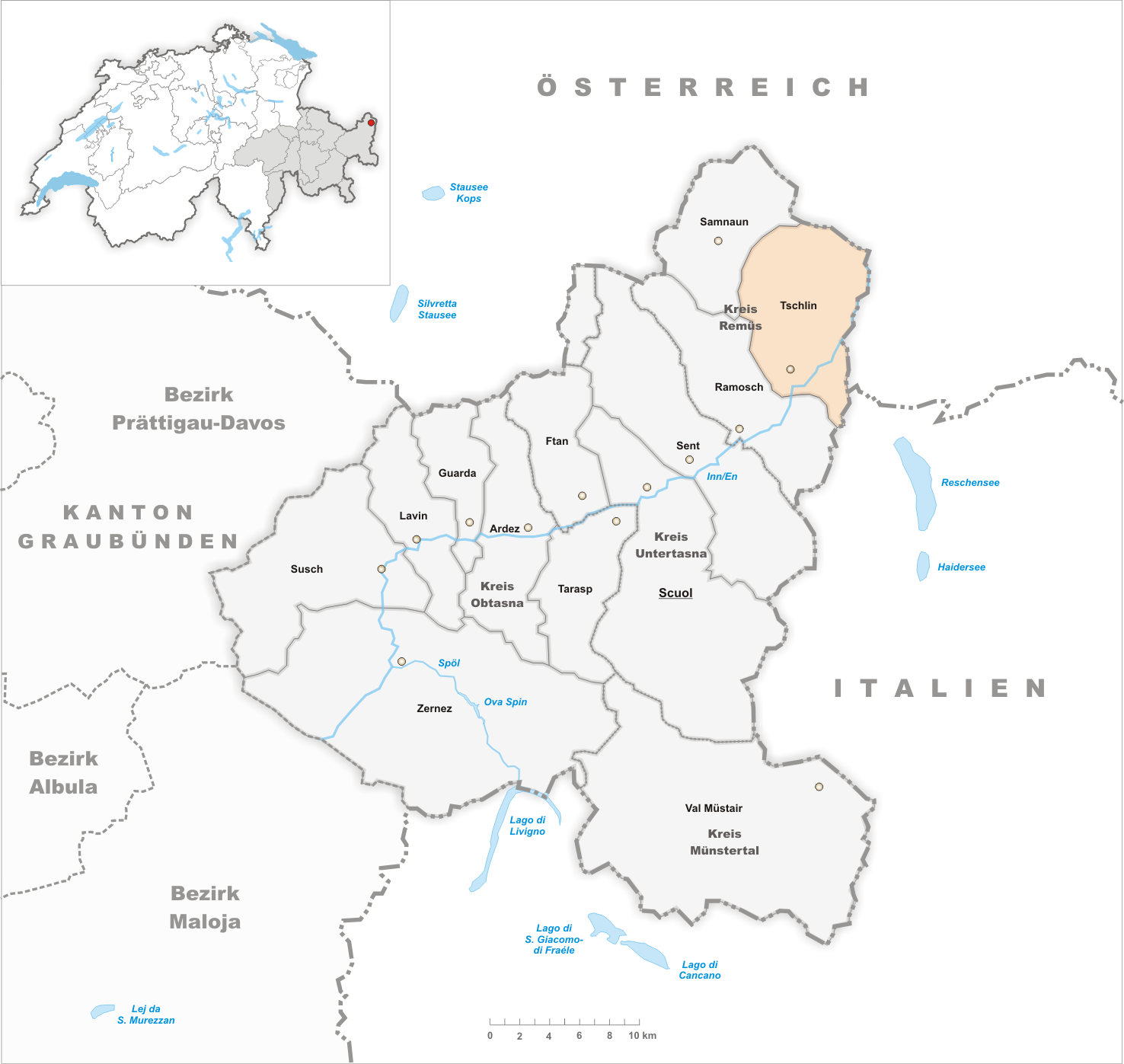 Municipality Tschlin